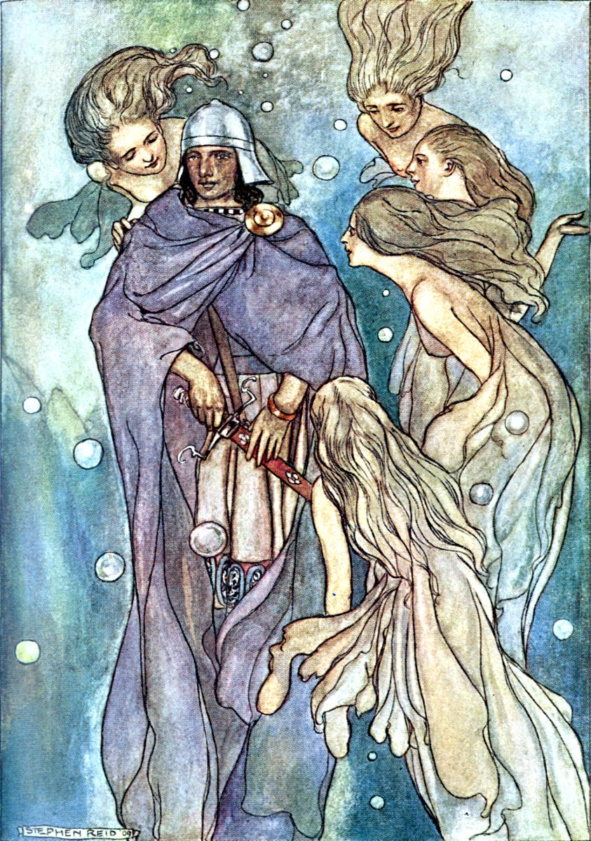 "There dwelt the red-haired ocean-nymphs" - The High Deeds of Finn and other Bardic Romances of Ancient Ireland, by T. W. Rolleston, et al, Illustrated by Stephen Reid